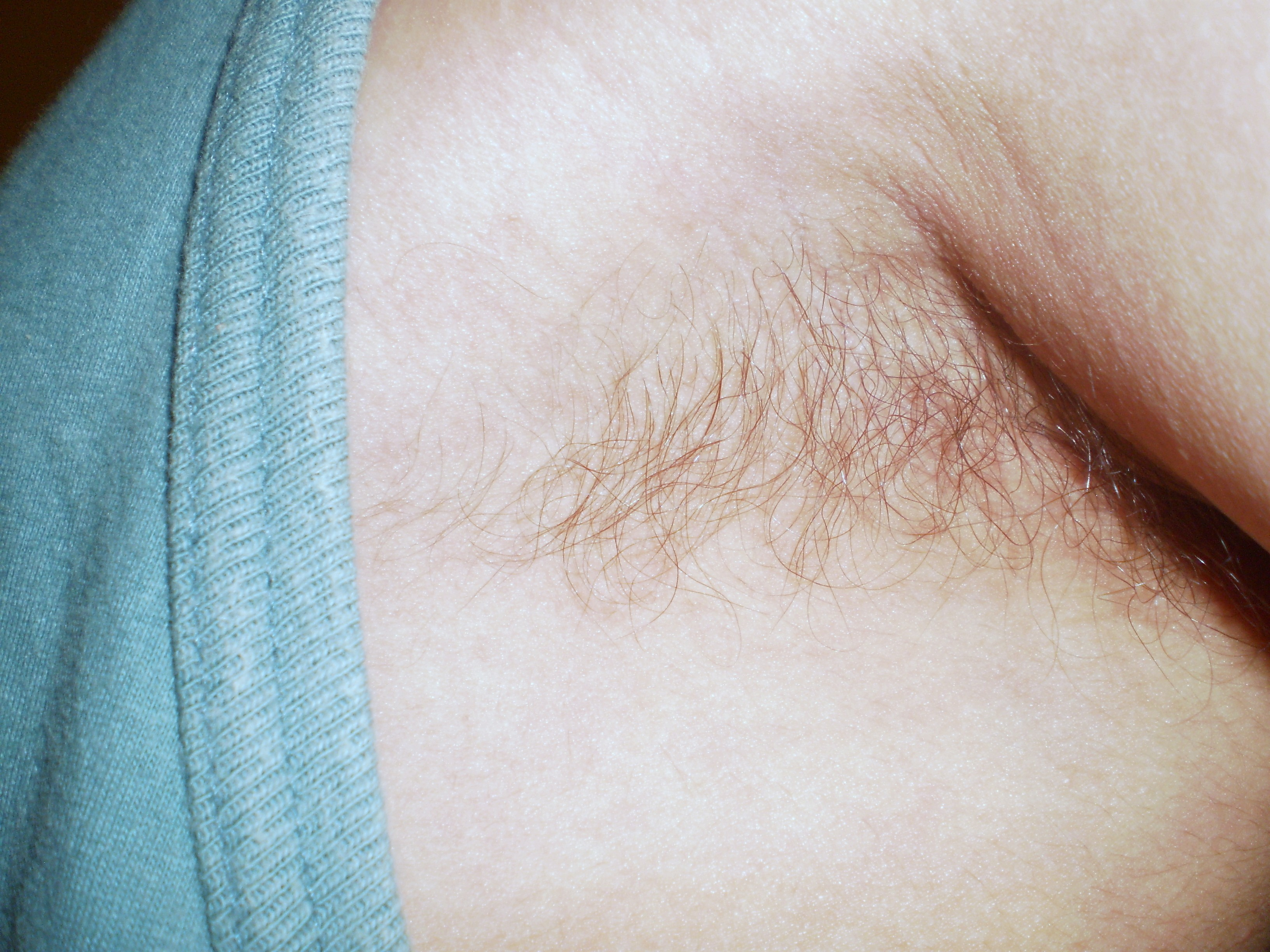 Vello axilar